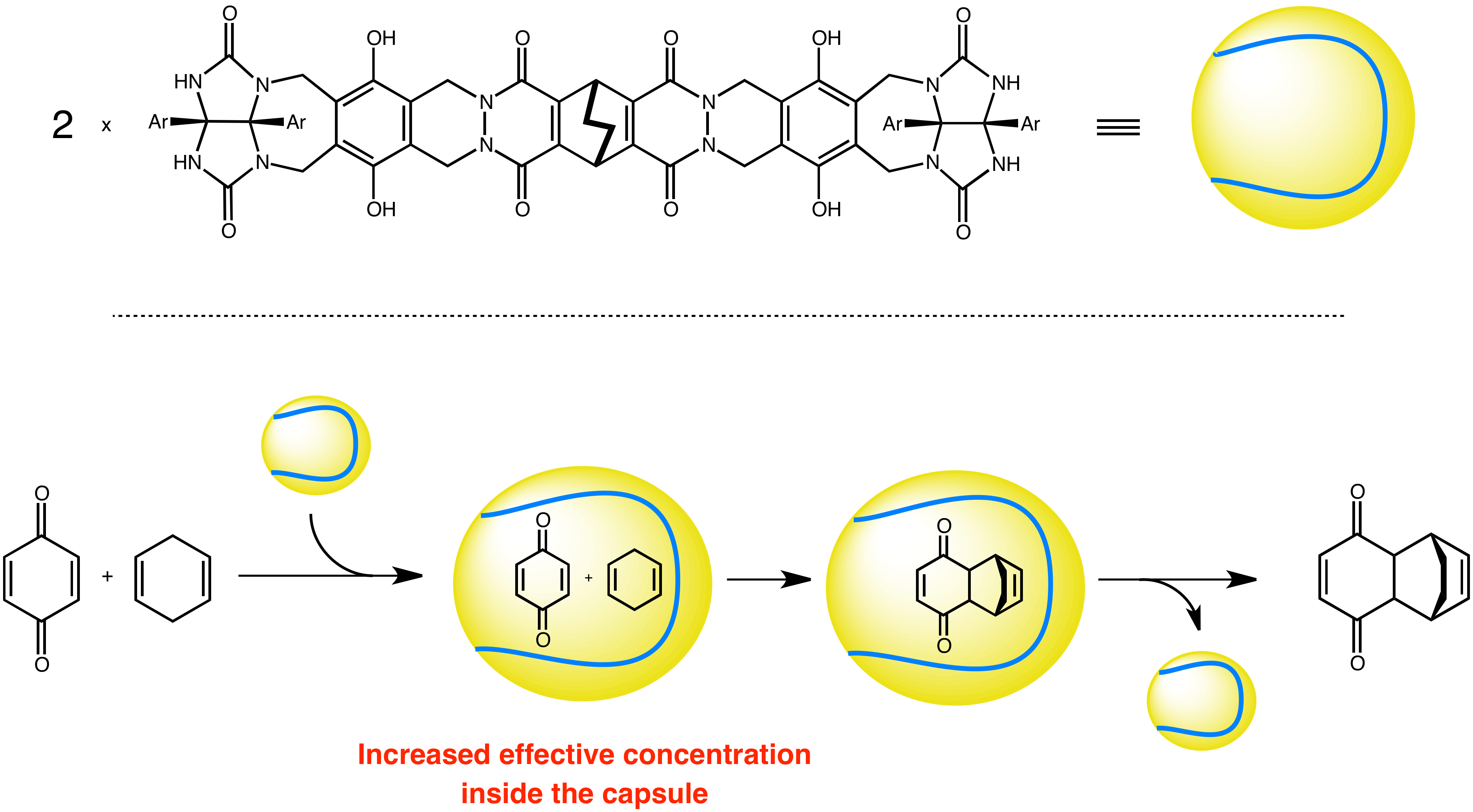 Hydrogen-bonded glycouril dimer capsule acts as a catalyst for Diels Alder reaction